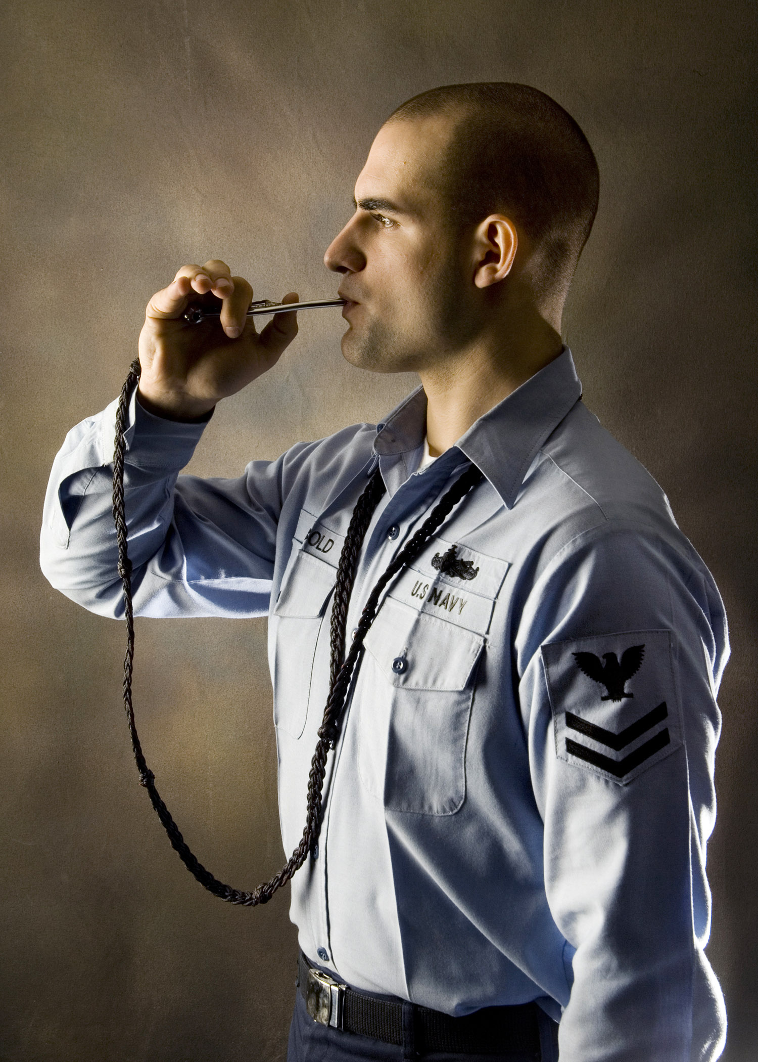 Newport News, Va. (Dec. 4, 2006) - A portrait of Boatswain's Mate 2nd Class Kevin Diebold, assigned to deck department, aboard the Nimitz-Class aircraft carrier USS Carl Vinson (CVN 70) holding his Boatswain's Pipe. U.S. Navy photo illustration by Mass Communication Specialist 2nd Class Refugio Carrillo (RELEASED)